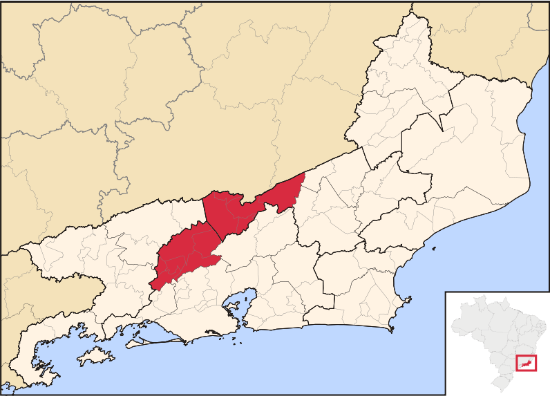 Map locator of Rio de Janeiro's South-Center political region